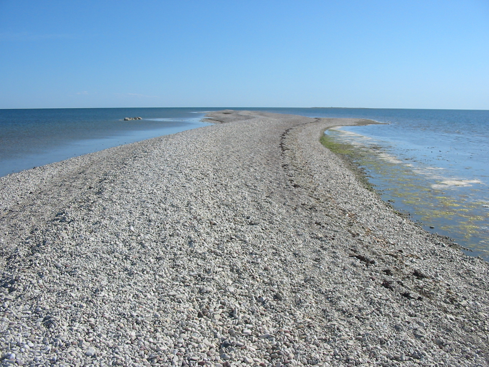 Southernmost tip of Sõrve Peninsula. View towards the sea.